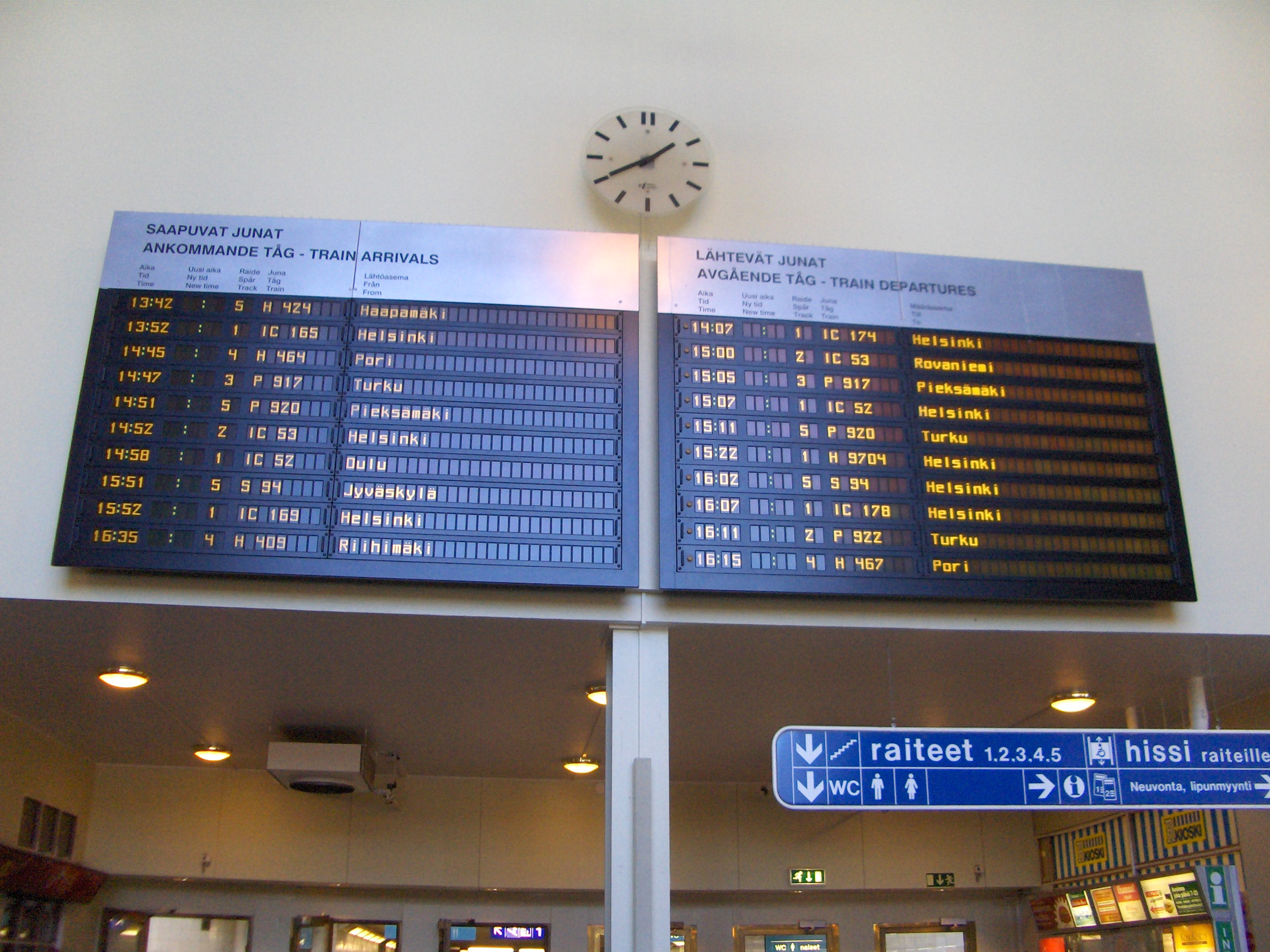 Monitor in Tampere railway station